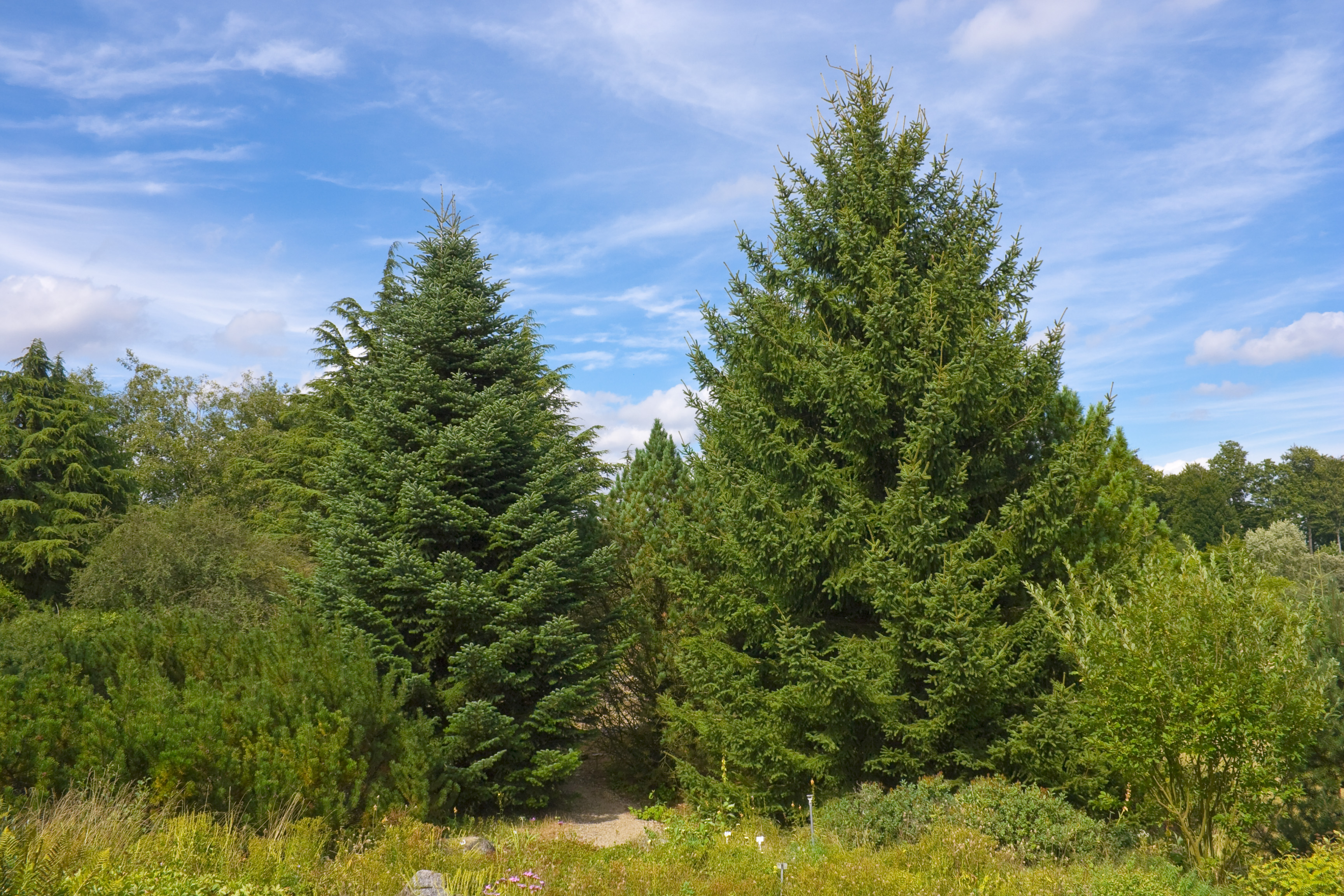 Greek Fir (Abies cephalonica), Location: New Botanical Garden Marburg, Hesse, Germany